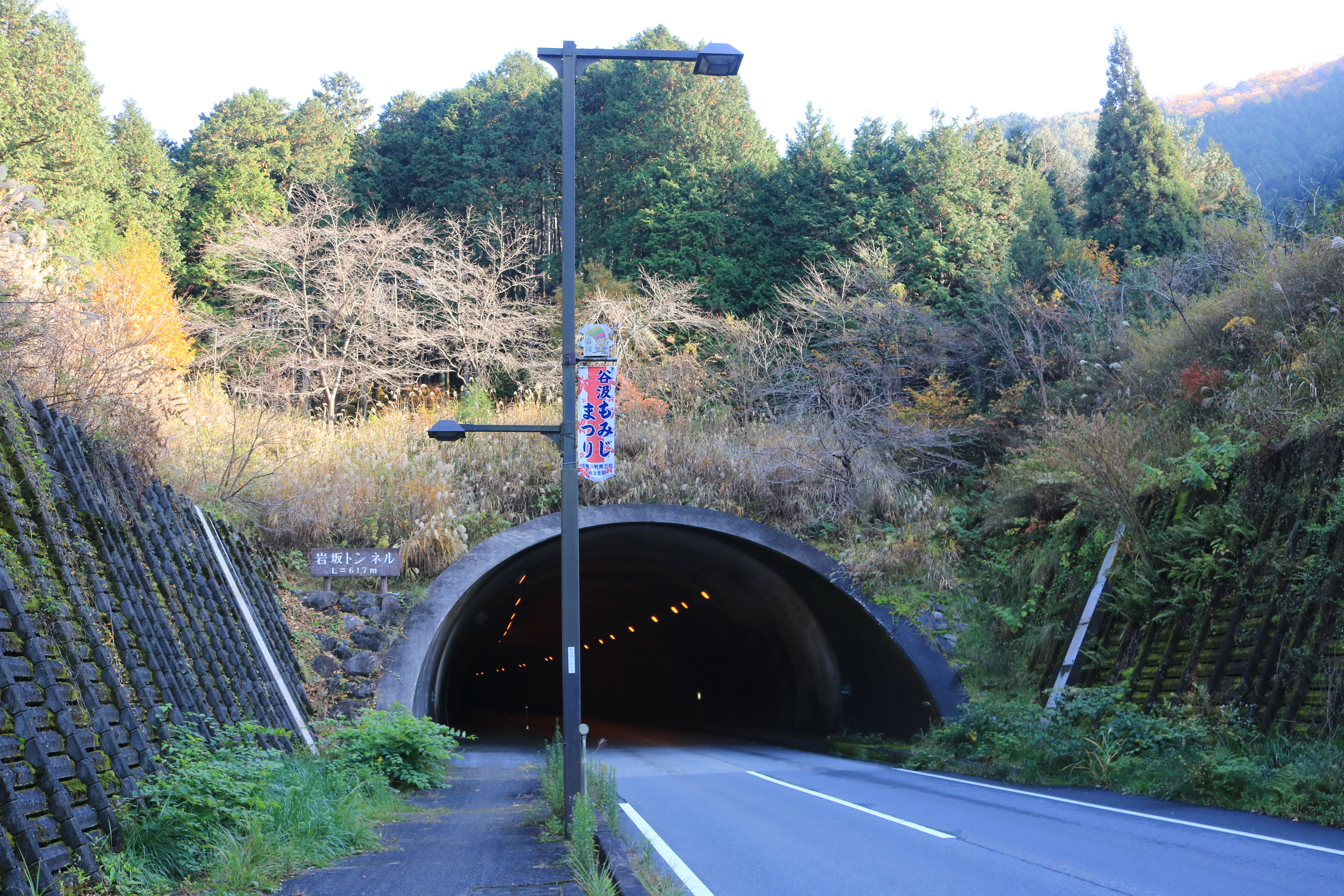 Iwasaka Tunnel of Gifu Prefectural Road Route 40 (Santō-Motosu Line) in Tanigumi, Ibigawa, Gifu Prefecture, Japan.